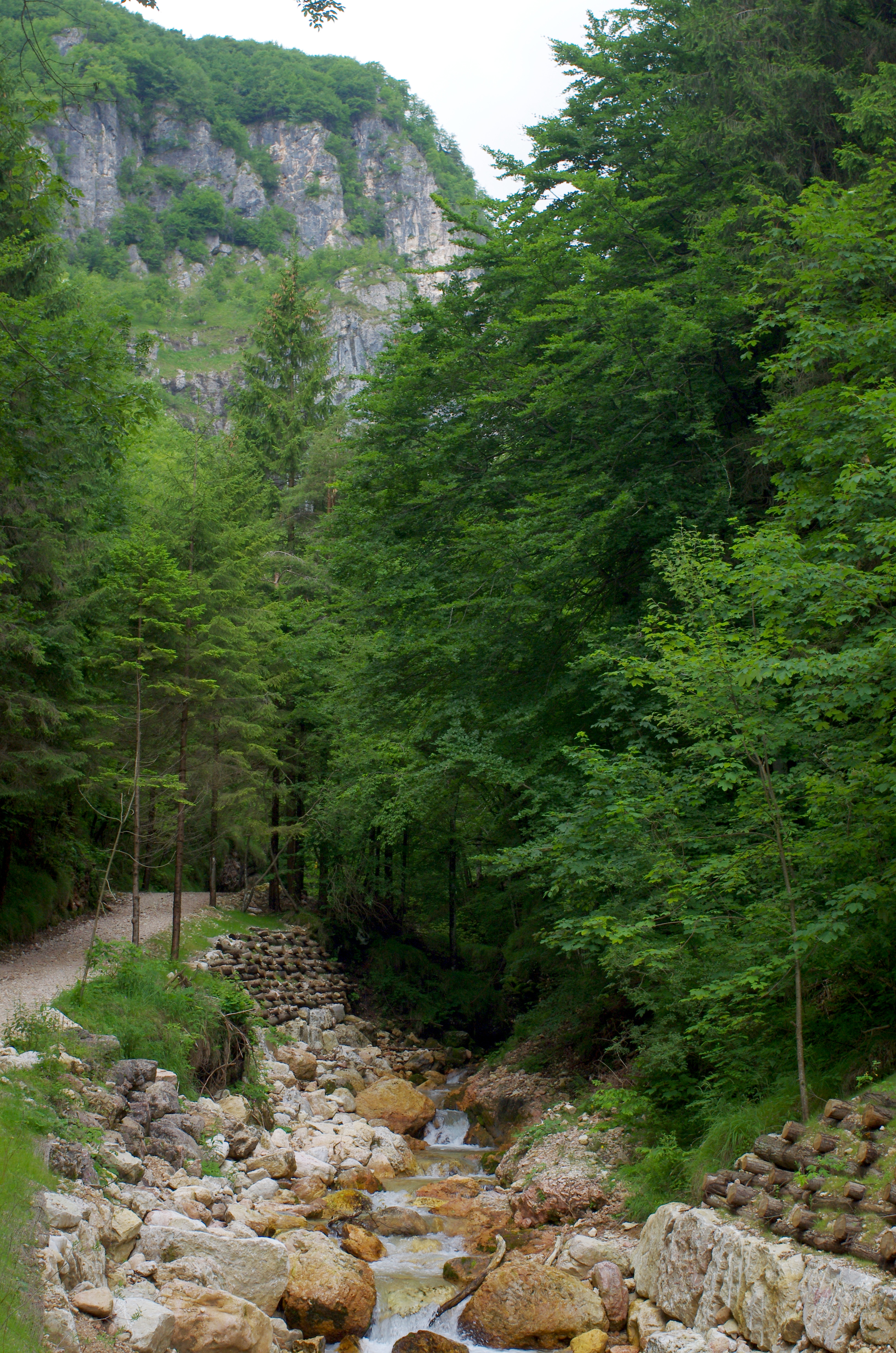 2014 07 Selva di Progno (VR) Italy - Giazza - Val Fraselle - ravin forest - Ctg Baldo Lessinia org photo Paolo Villa FOTO6791bis